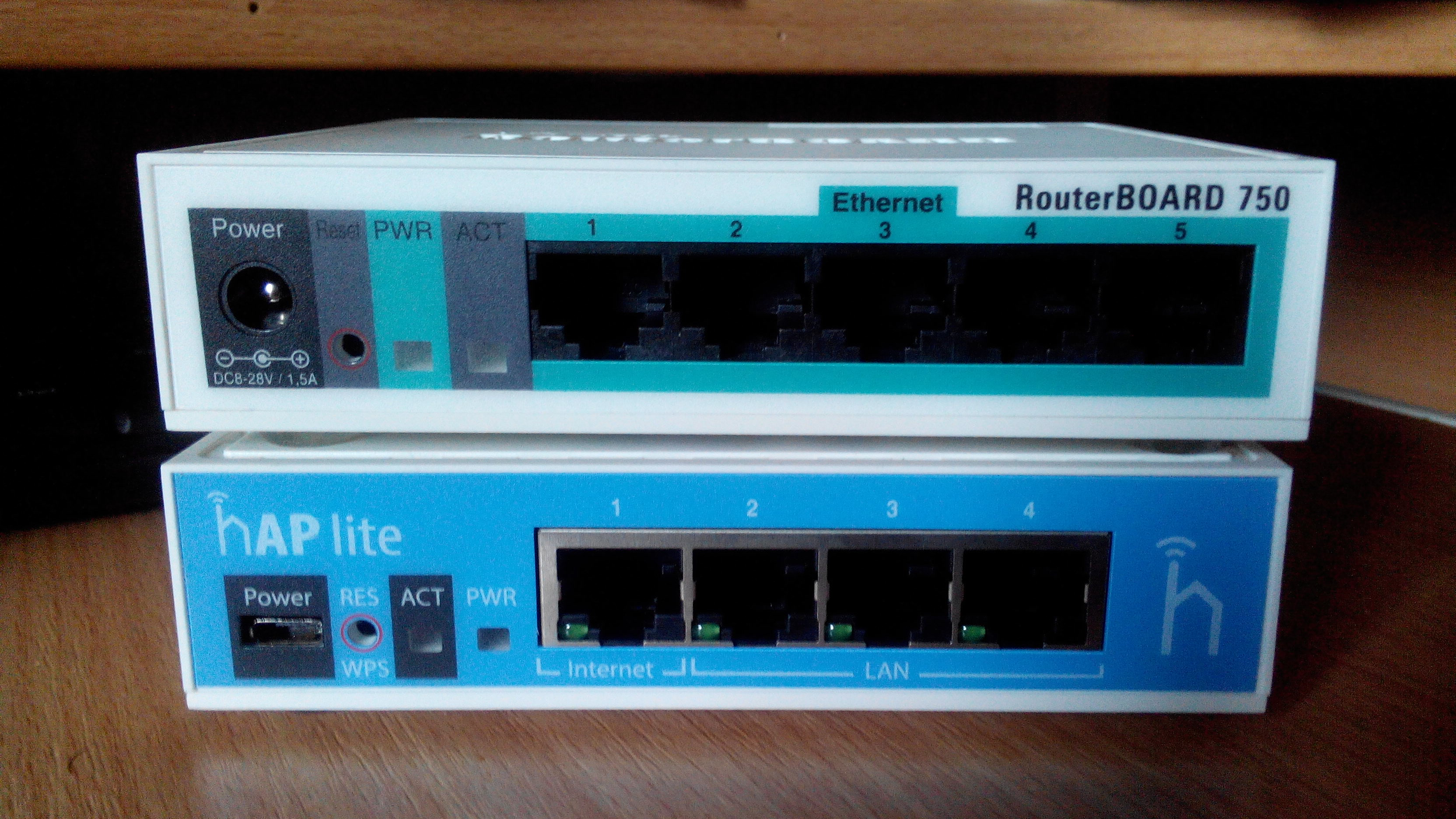 Back panel comparison